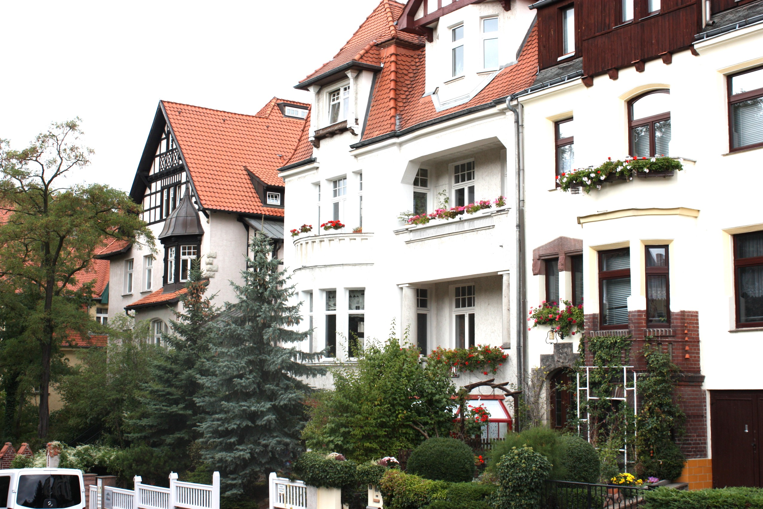 Halle (Saale), villas at the Wittekindstraße